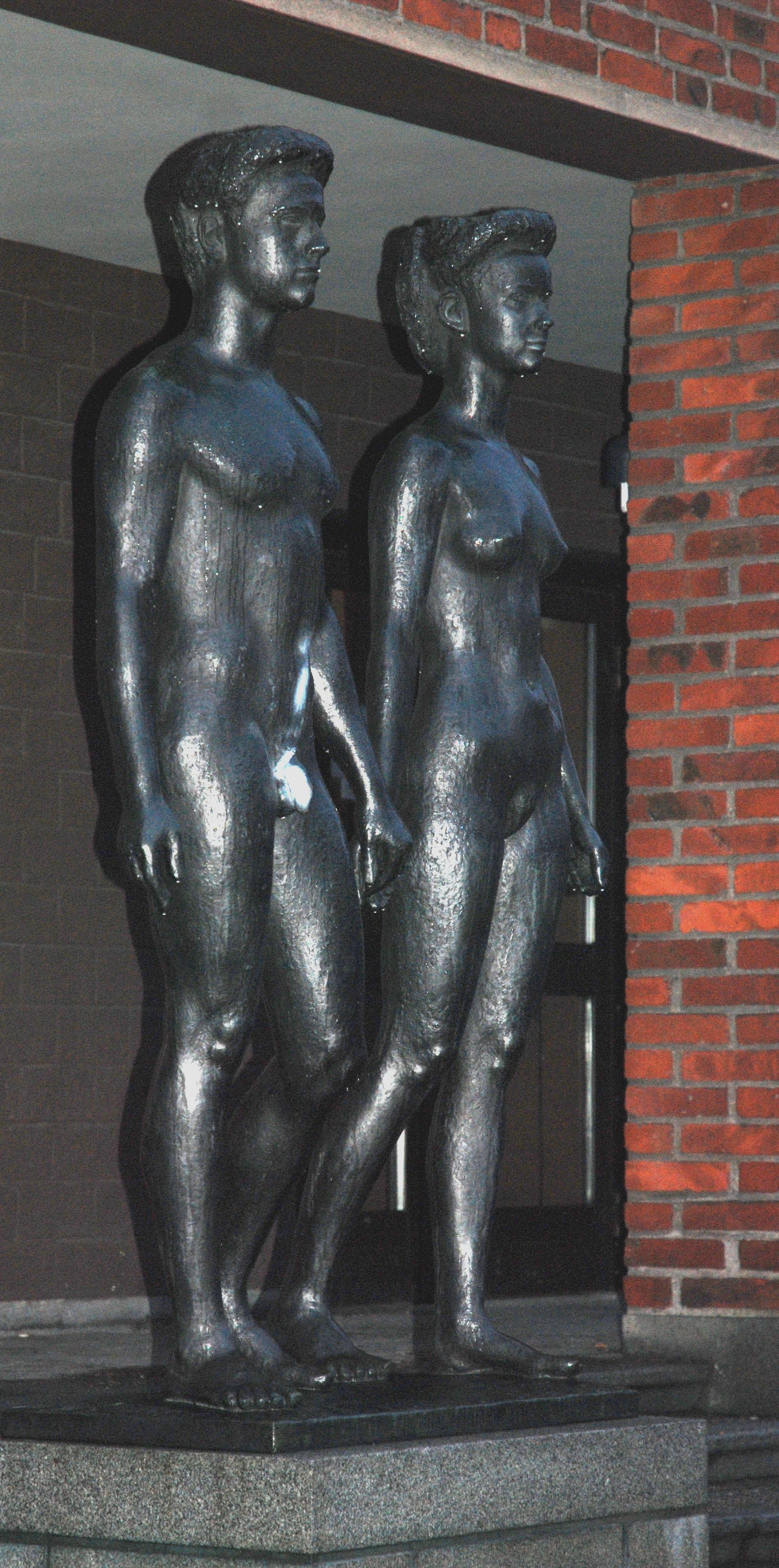 Gustav Nordahl´s Hommage to Ling (1948), bronze, outside the College of Physics and Sports in Stockholm, Sweden (gold medal in Sculpture at the Olympic Games in London 1948).